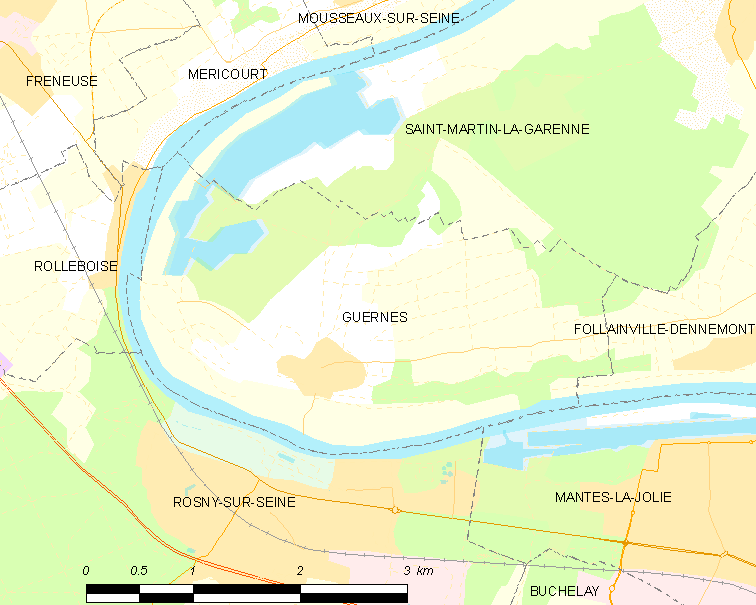 Map of French municipality Guernes